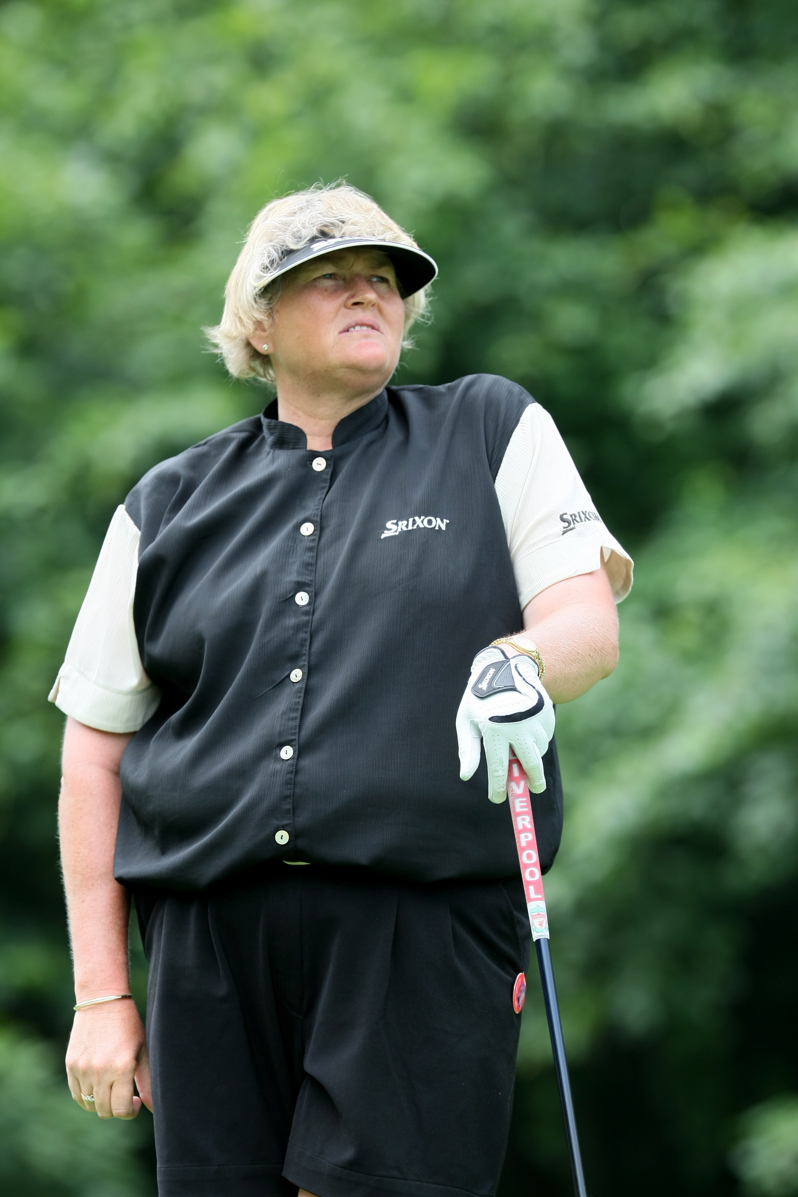 HAVRE DE GRACE, MD - JUNE 09: Laura Davies (ENG) during Pro-Am before 2009 LPGA Championship held at Bulle Rock Golf Course, on June 9, 2009 in Havre de Grace, Maryland. (Photo by Keith Allison)